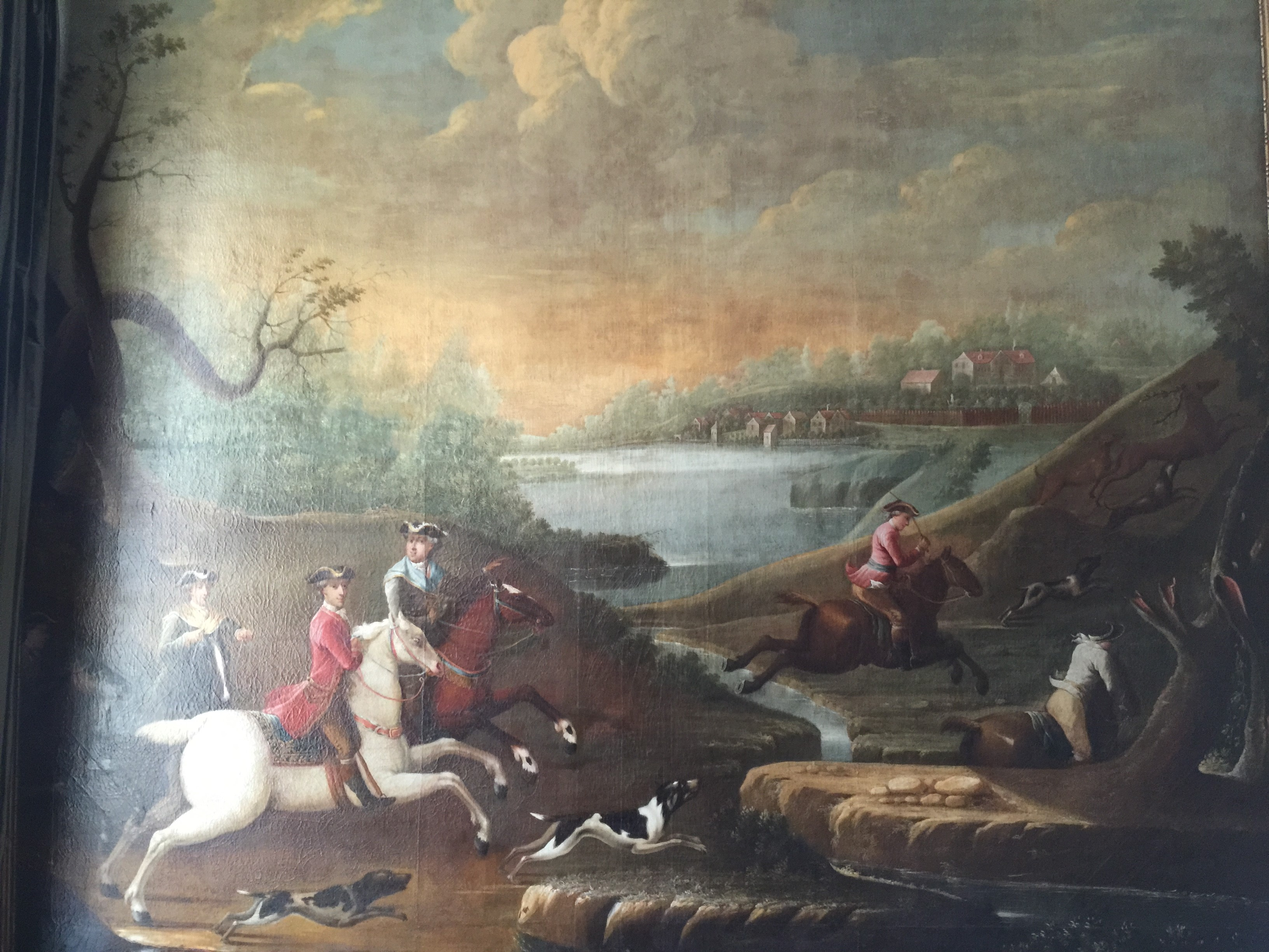 Christian VII during a par force hunt in North Zealand, Denmark